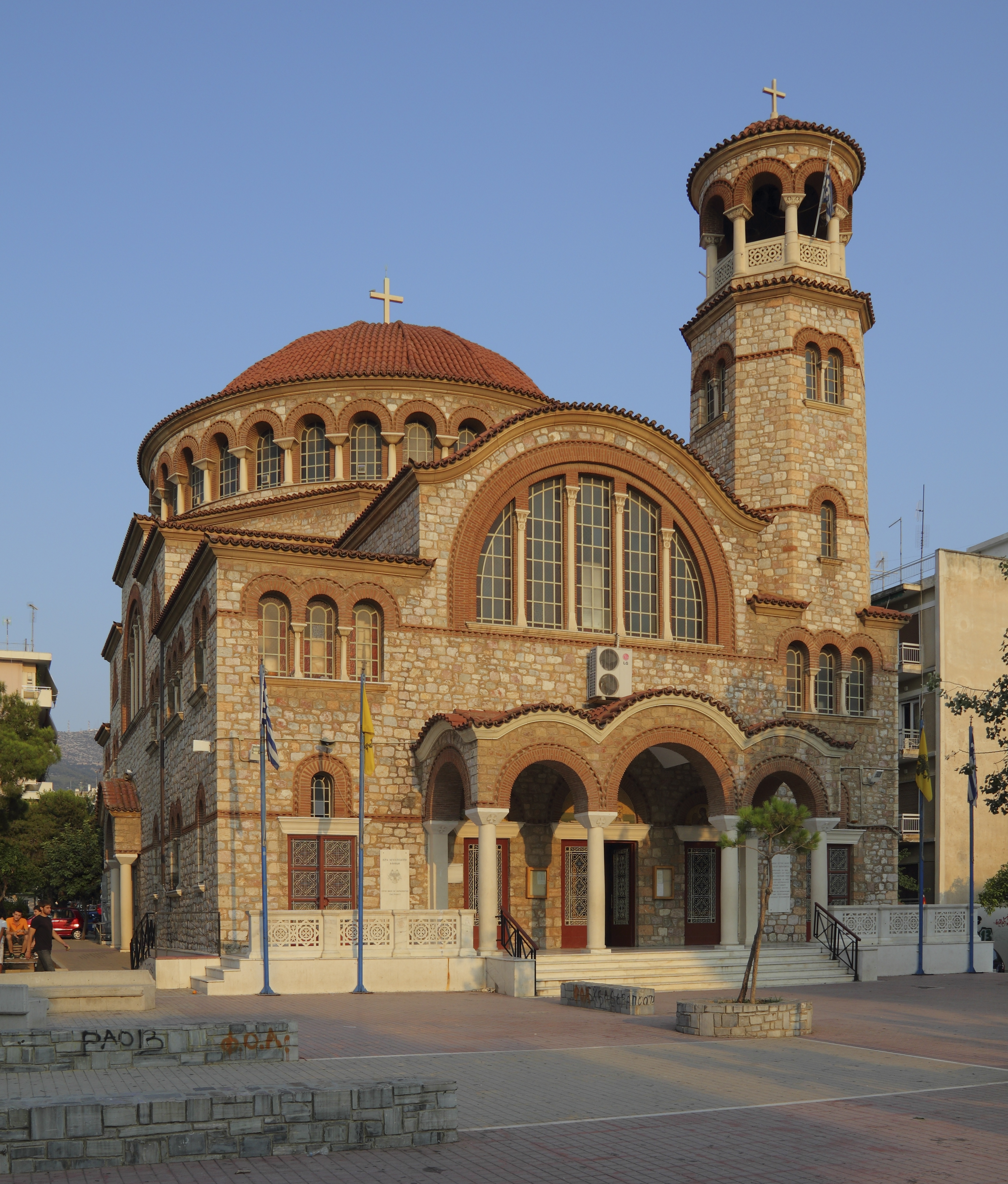 Saint Therapont Church in Zografou (Attica, Greece)